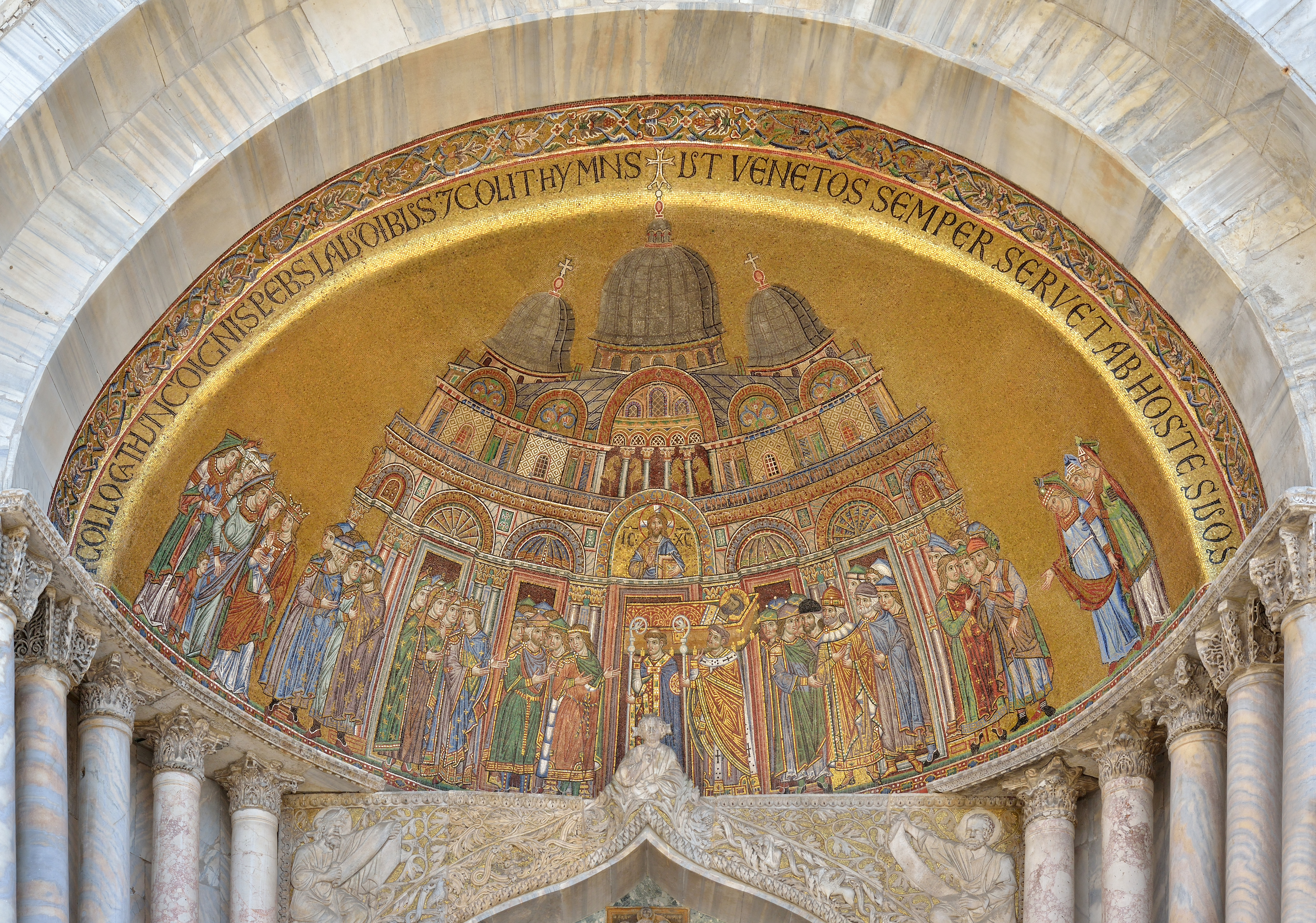 Mosaic of the translation of the body of Saint Mark on San Alipio facade door of the Saint Mark's Basilica in Venice.